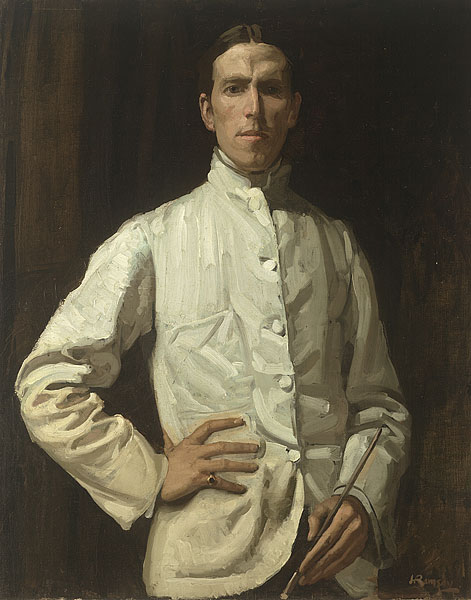 Self Portrait in White Jacket